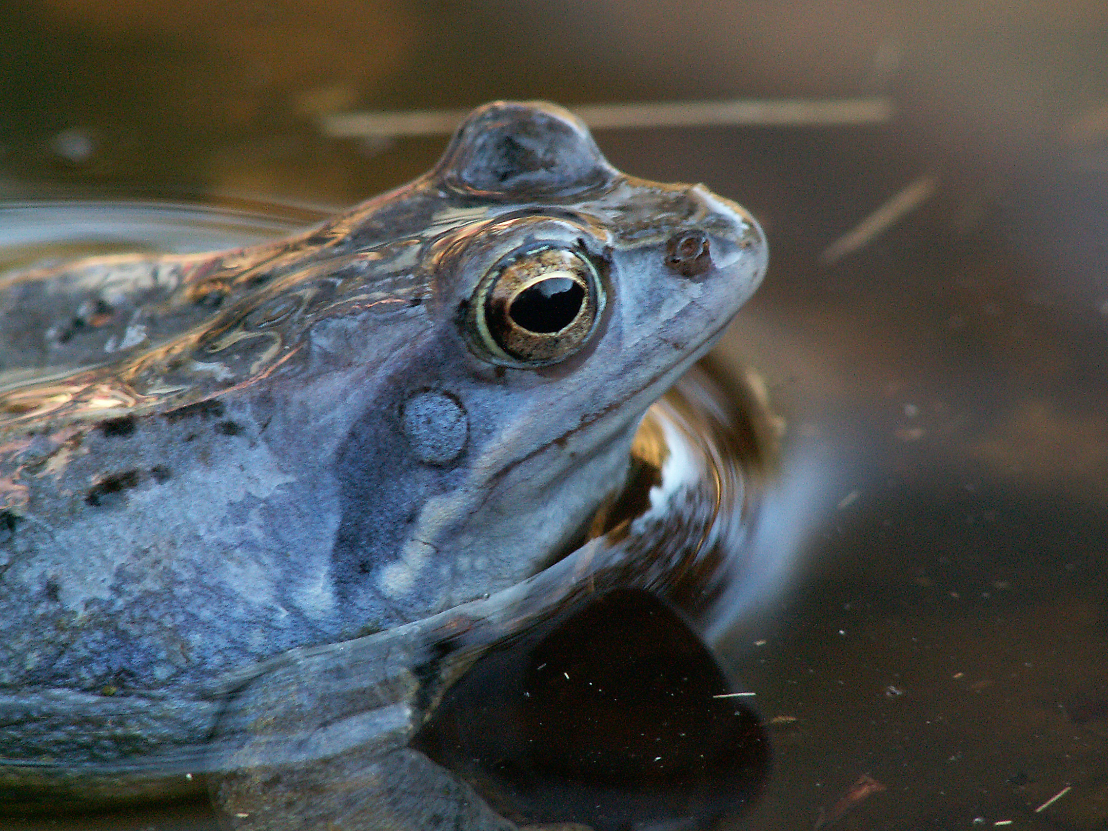 Notice the small tympanus (ear) of this blue Moorfrog (Rana arvalis). The typical blue colour of the Moor Frog is a hue over the normal colour pattern, that is present only a few days per year.